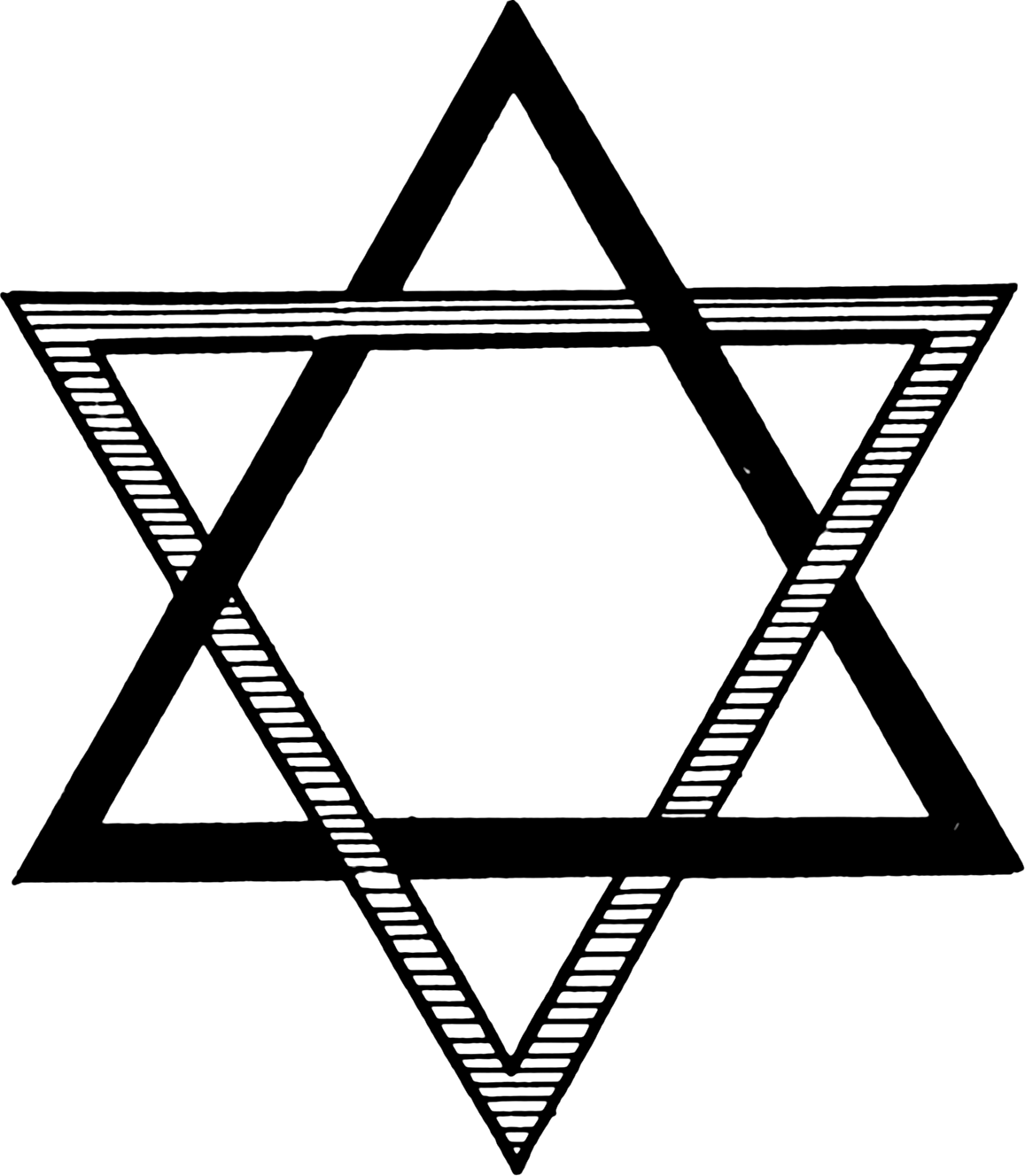 Line art representation of the Solomon's seal